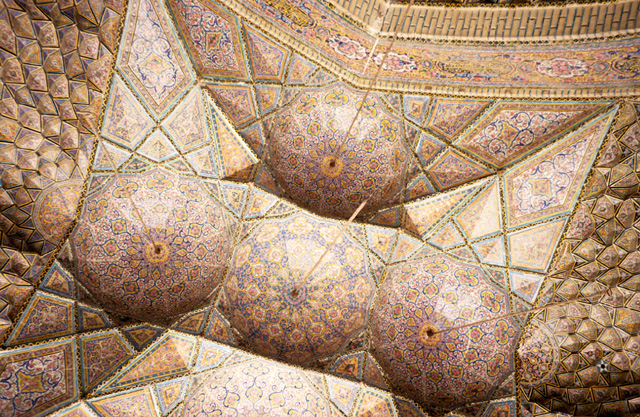 I am the photographer. Scanned from my slides.